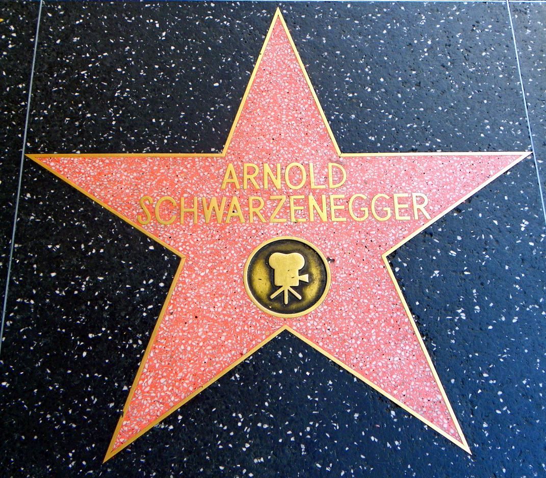 Arnold Schwarzenegger's star on the Hollywood Walk of Fame in Hollywood, Los Angeles, California